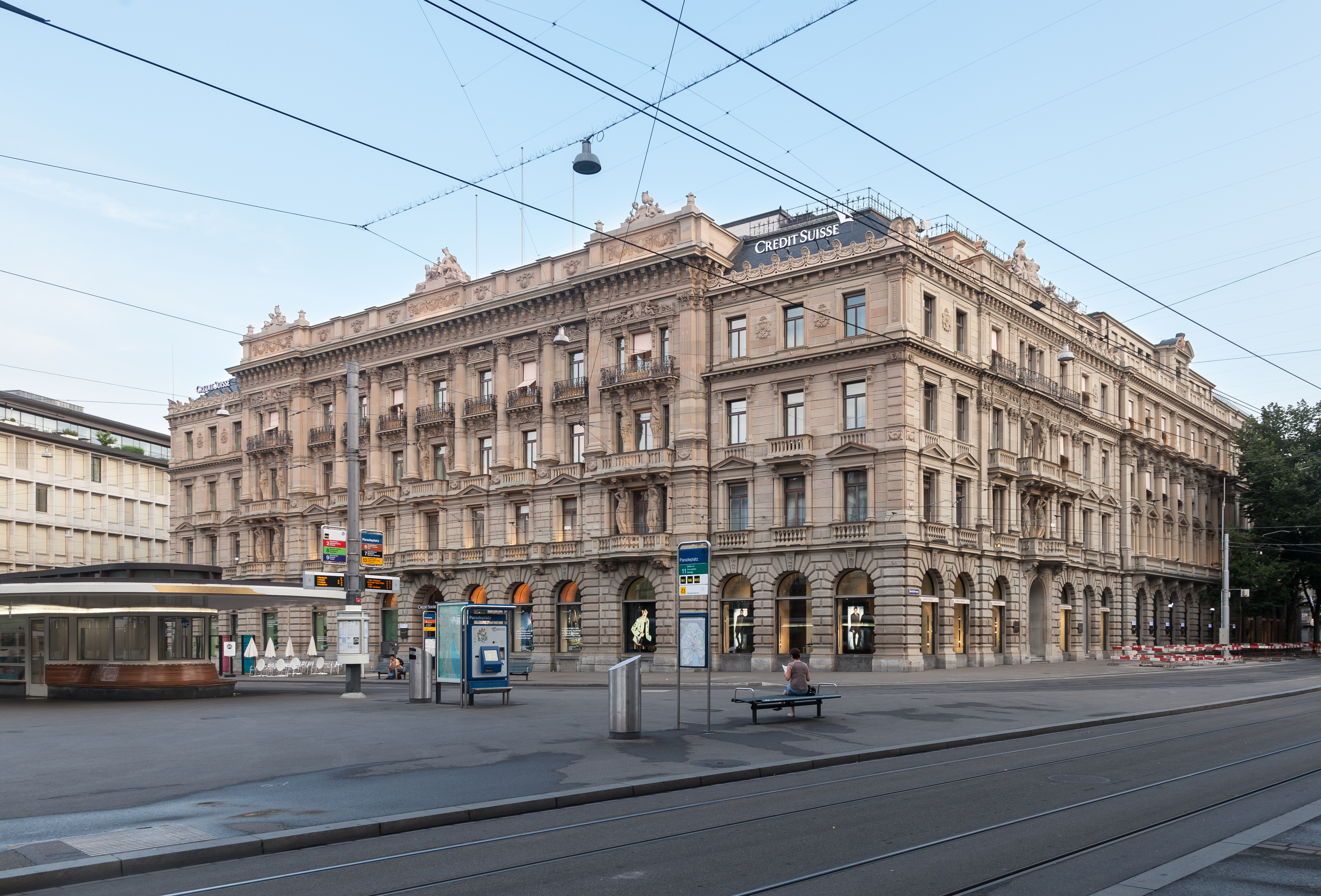 Credit Suisse headquarters at Paradeplatz in Zürich, Switzerland